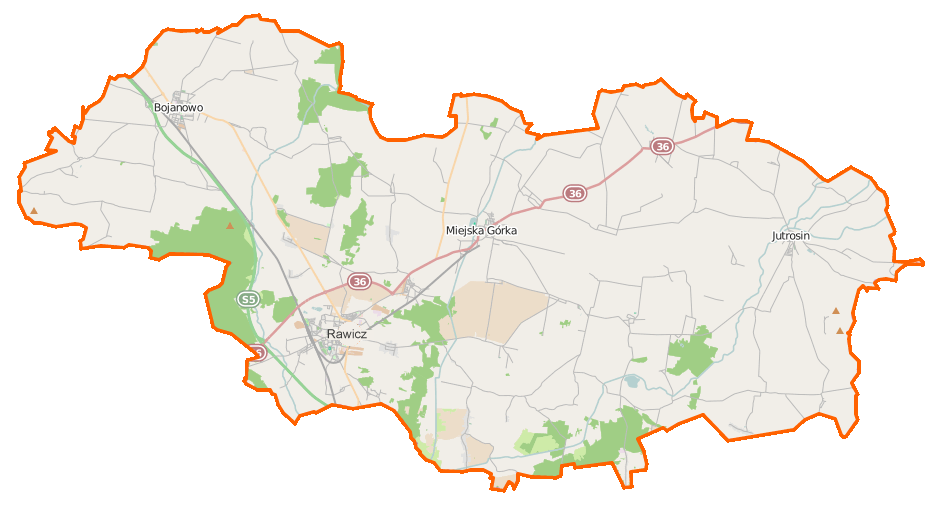 Map of Powiat rawicki, Poland This map of Powiat rawicki was created from OpenStreetMap project data, collected by the community. This map may be incomplete, and may contain errors. Don't rely solely on it for navigation. Border coordinates51.752516.6264←↕→17.276051.5348